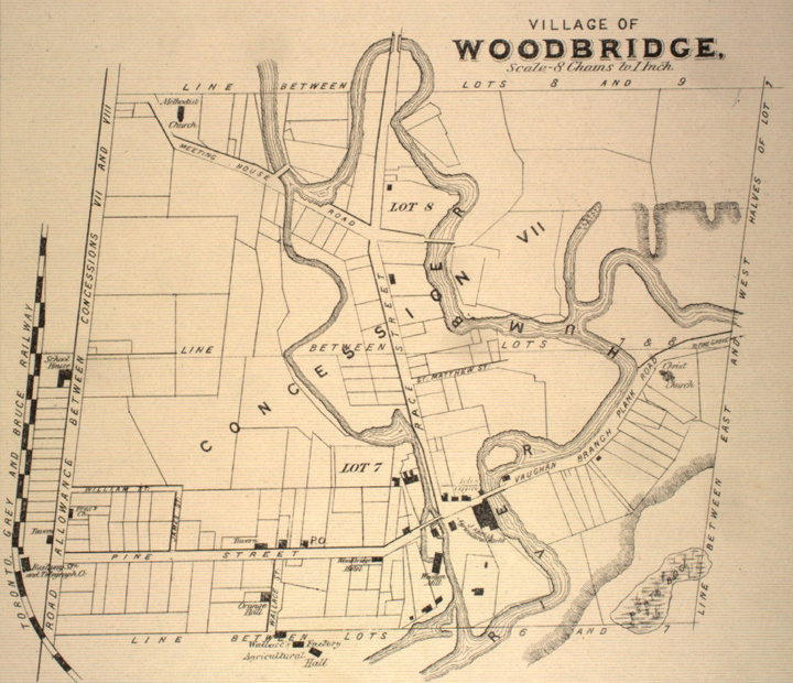 A map depicting the western half of lots 7 and 8 of Concession VII in Woodbridge, a community in York County, Ontario. On the left, the rail line Toronto Grey and Bruce Railway is labelled. A western branch of the Humber River is prominent.